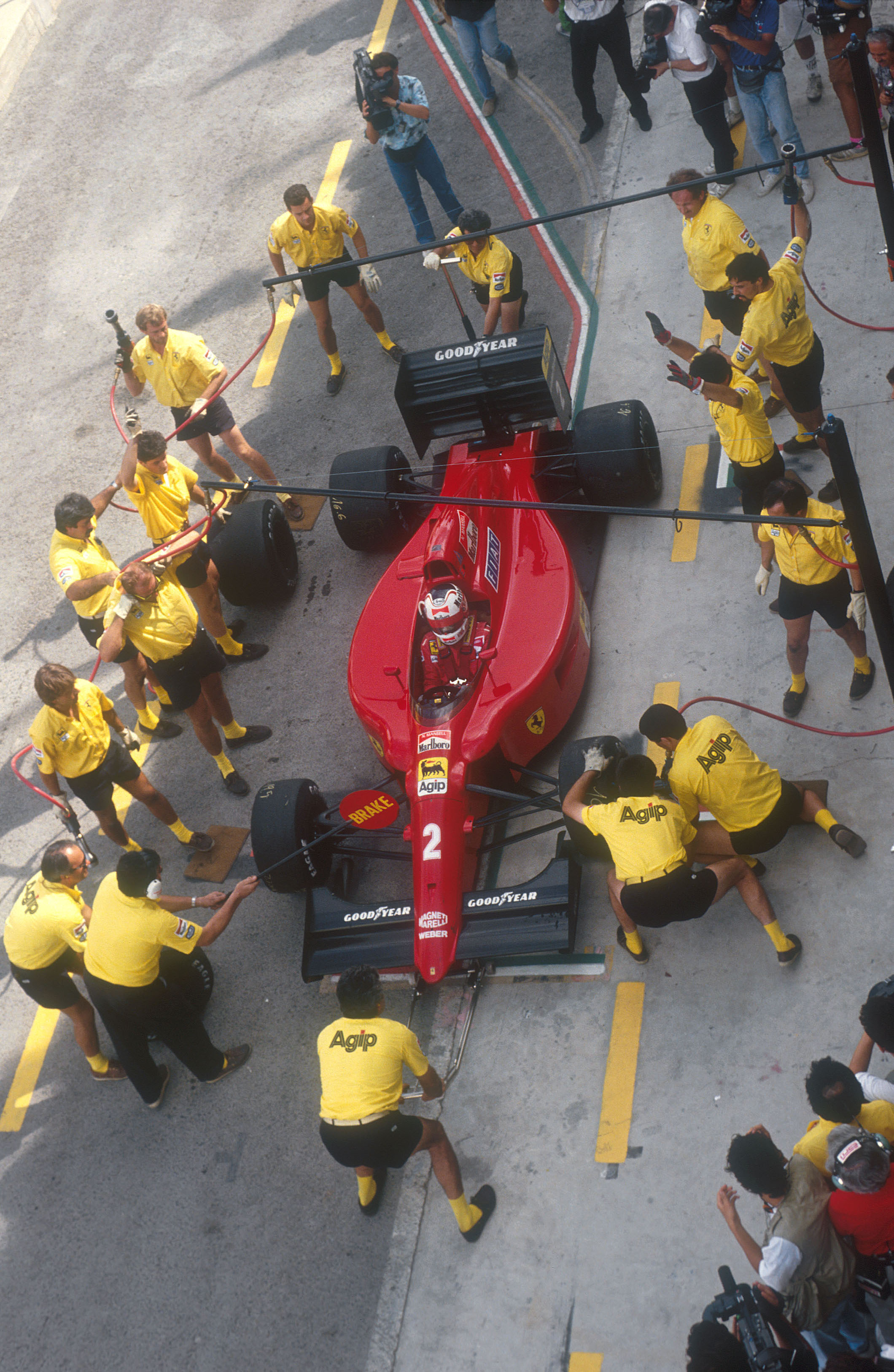 1990 Spanish Grand Prix..Jerez, Spain..28-30 September 1990..Nigel Mansell (Ferrari 641) takes a pitstop on the way to 2nd position..Ref-90 ESP 37..World Copyright - LAT Photographic